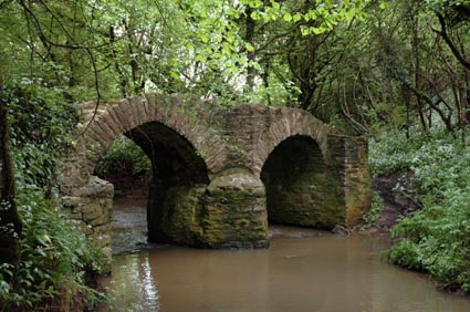 Sturt Bridge. Hidden away in the valley below the village but well known to locals. You can find it by walking down Poplar Lane.